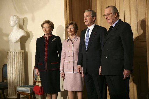 President George W. Bush and first lady Laura Bush are welcomed by King Albert II and Queen Paola of Belgium at the palace office in Brussels, Monday, Feb. 21, 2005.